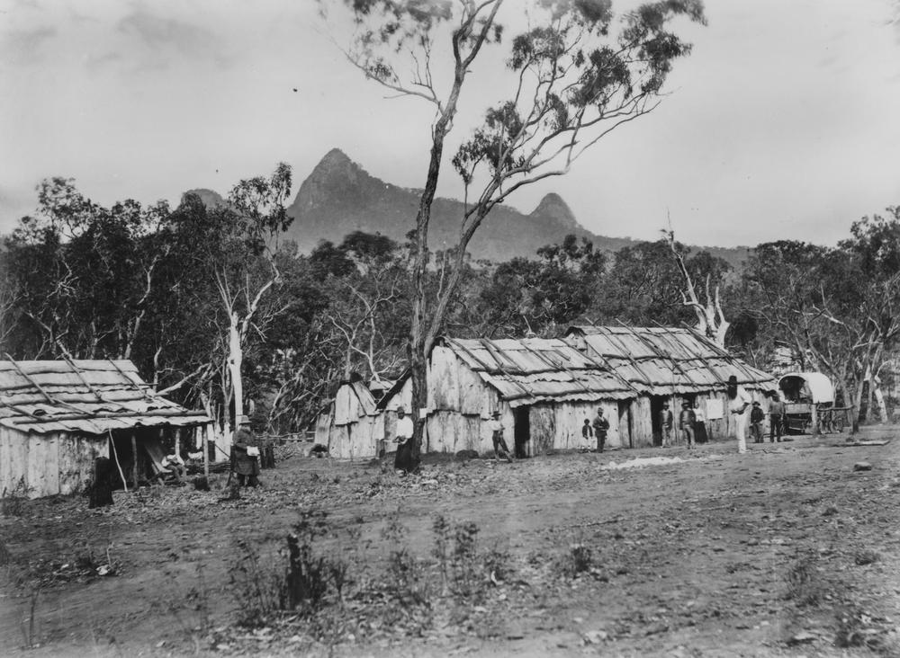 Royal Mail Hotel and doctor's cottage, Mount Britton Goldfield, ca. 1881 Two rough bush buildings made from bark are pictured on the Mount Britton Goldfield, ca. 1881. Gold miners can be seen standing outside the hotel building on the right.